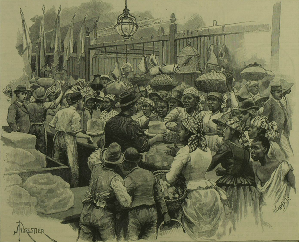 Ice Stall in the Market, Georgetown, Demerara, British Guiana by Amédée Forestier, 1888